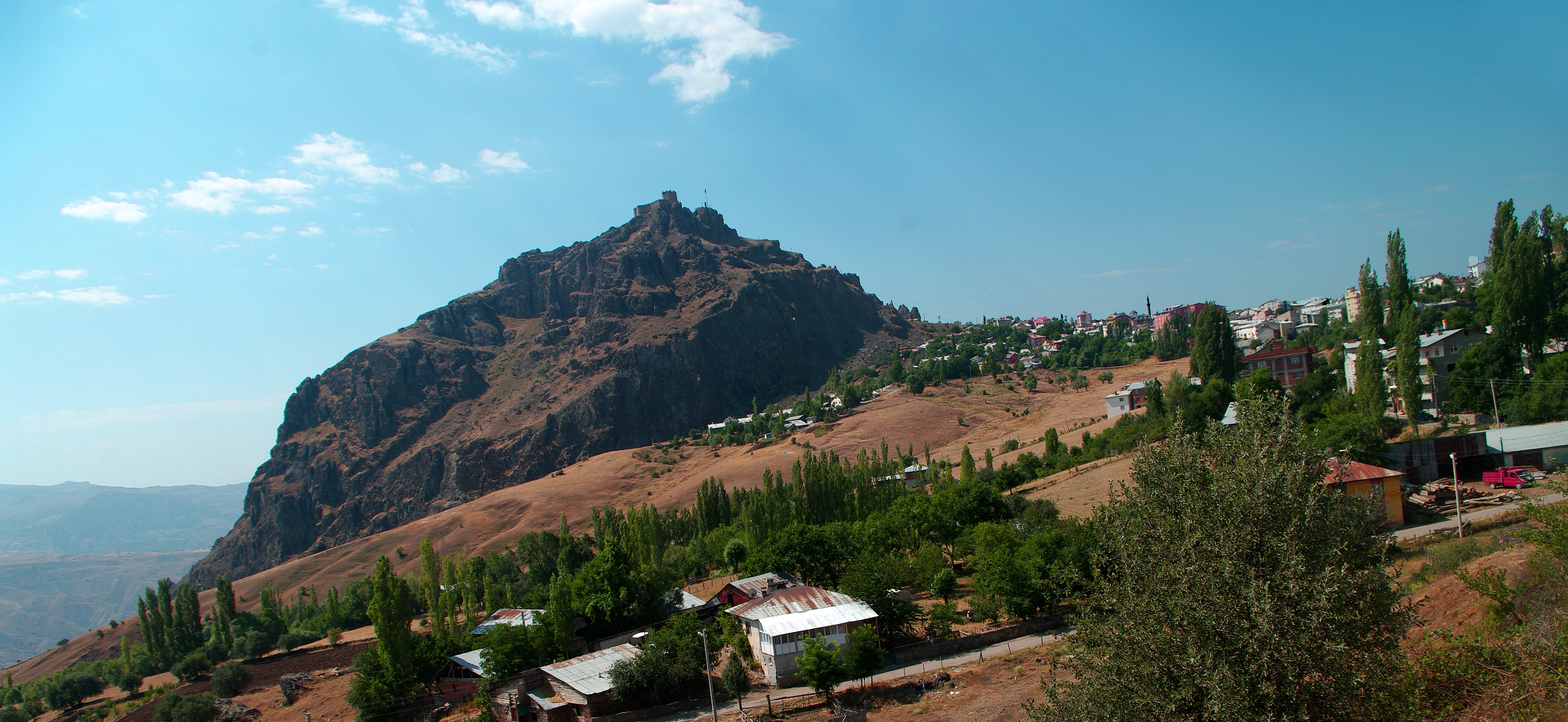 Northern side view of the Castle of Şebinkarahisar, Giresun - Turkey.